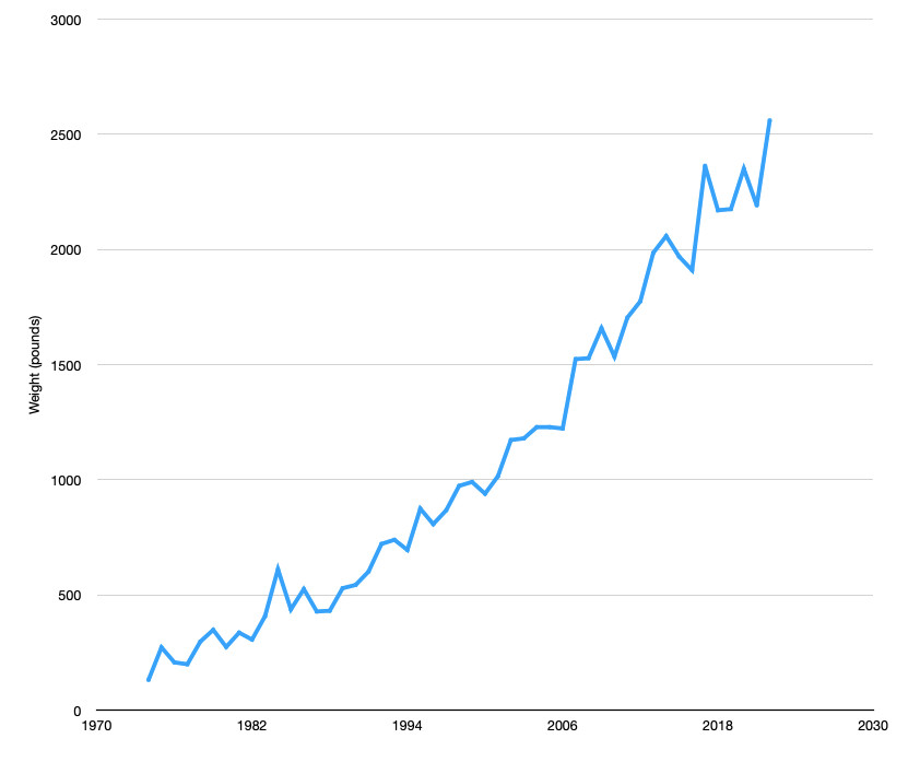 A graph of the weight of the winning pumpkin in the Safeway World Championship Pumpkin Weigh-Off in years 1974-2019. The Weigh-Off takes place every October in Half Moon Bay, California.